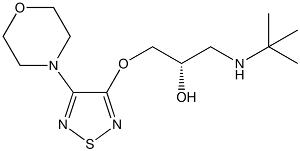 Corrected structure of timolol (in same orientation as propranolol image). Created with ChemDraw Chemical structure of timolol. PRoduced by myself using ISISDraw 2.5